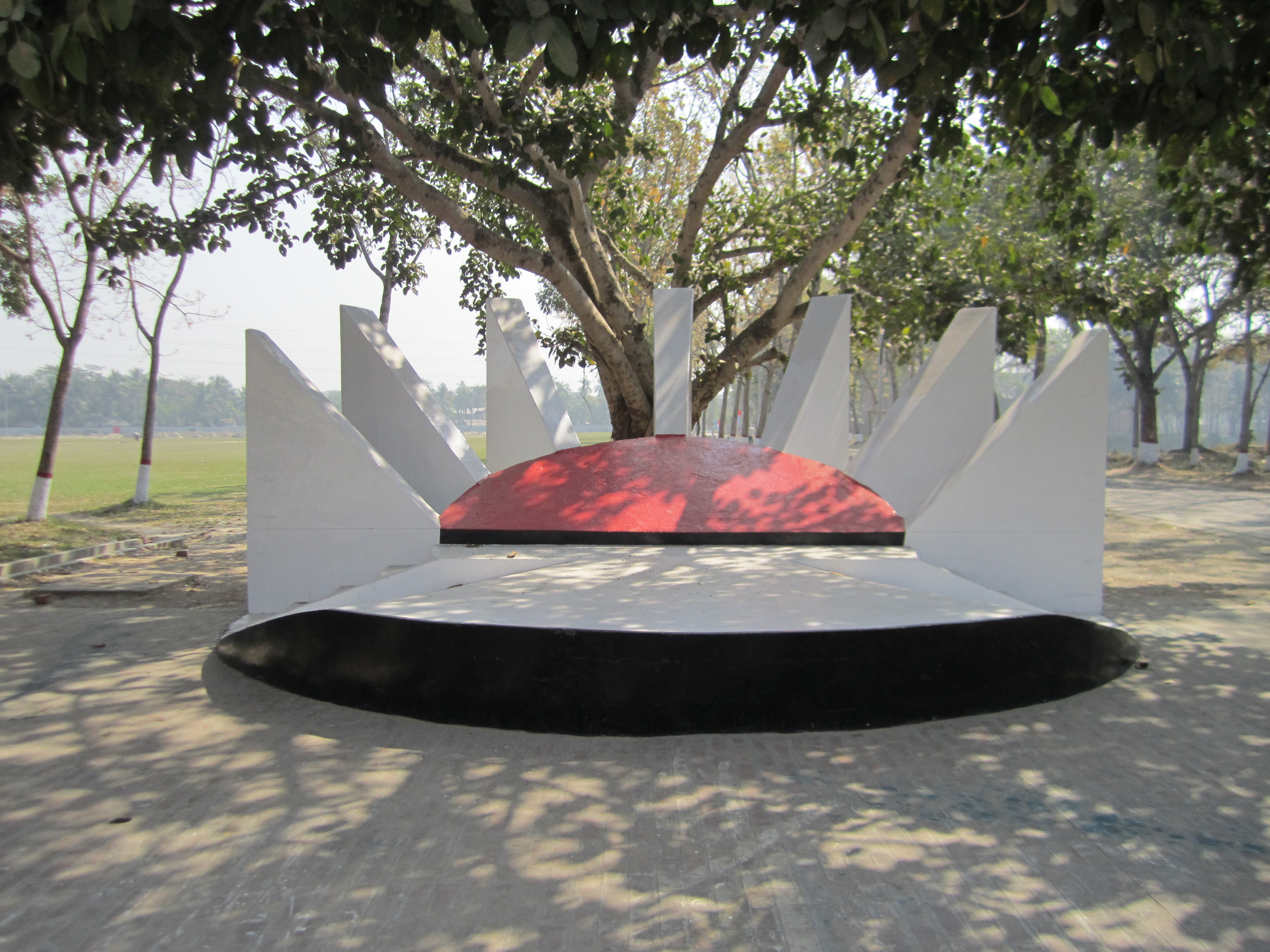 This is the image of Shaheed Minar situated in Khulna University of Engineering and Technology (KUET), Bangladesh. It is situated near the auditorium of KUET